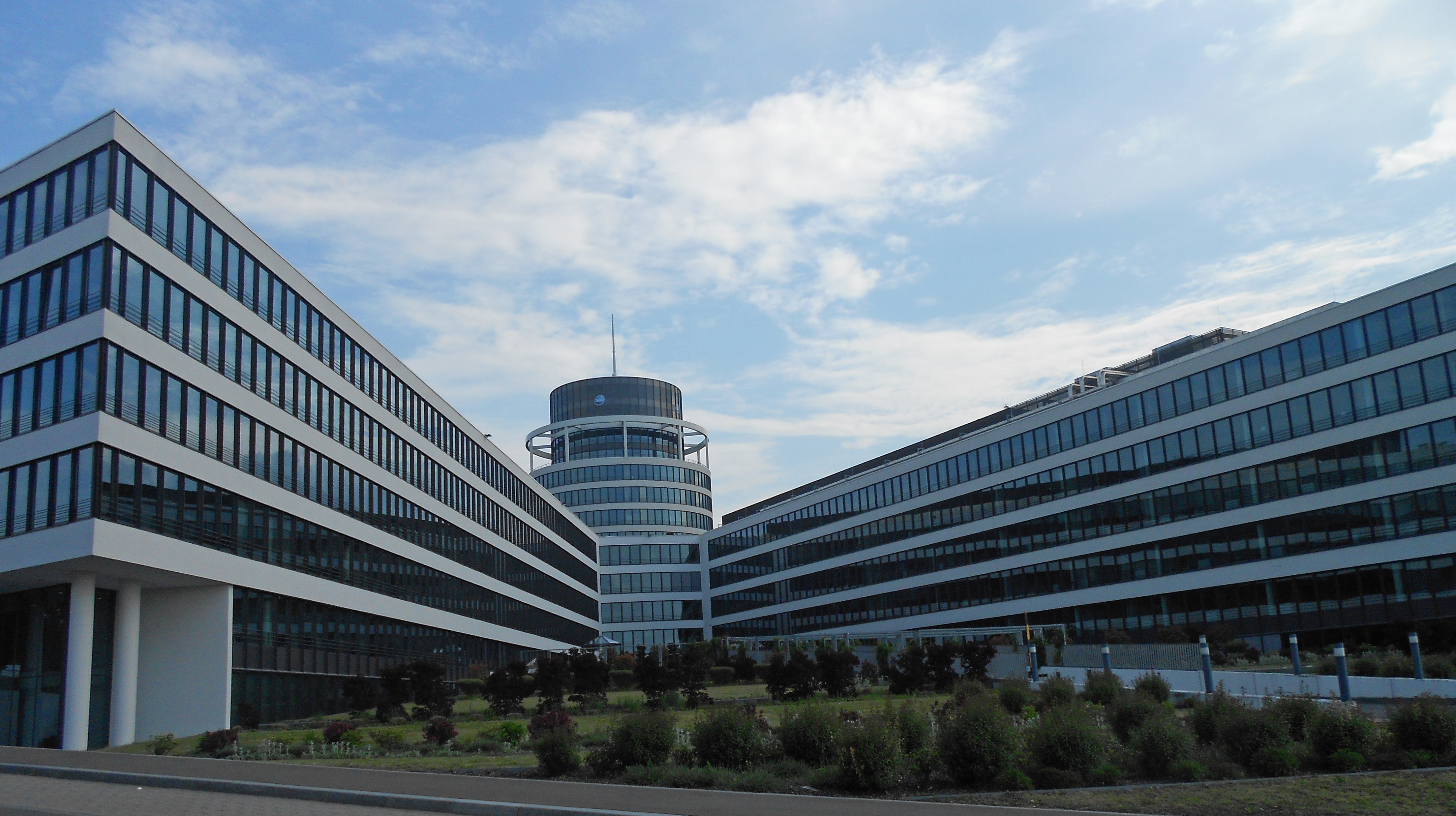 Centre Drosbach on the Cloche d'or, in the city of Luxembourg.